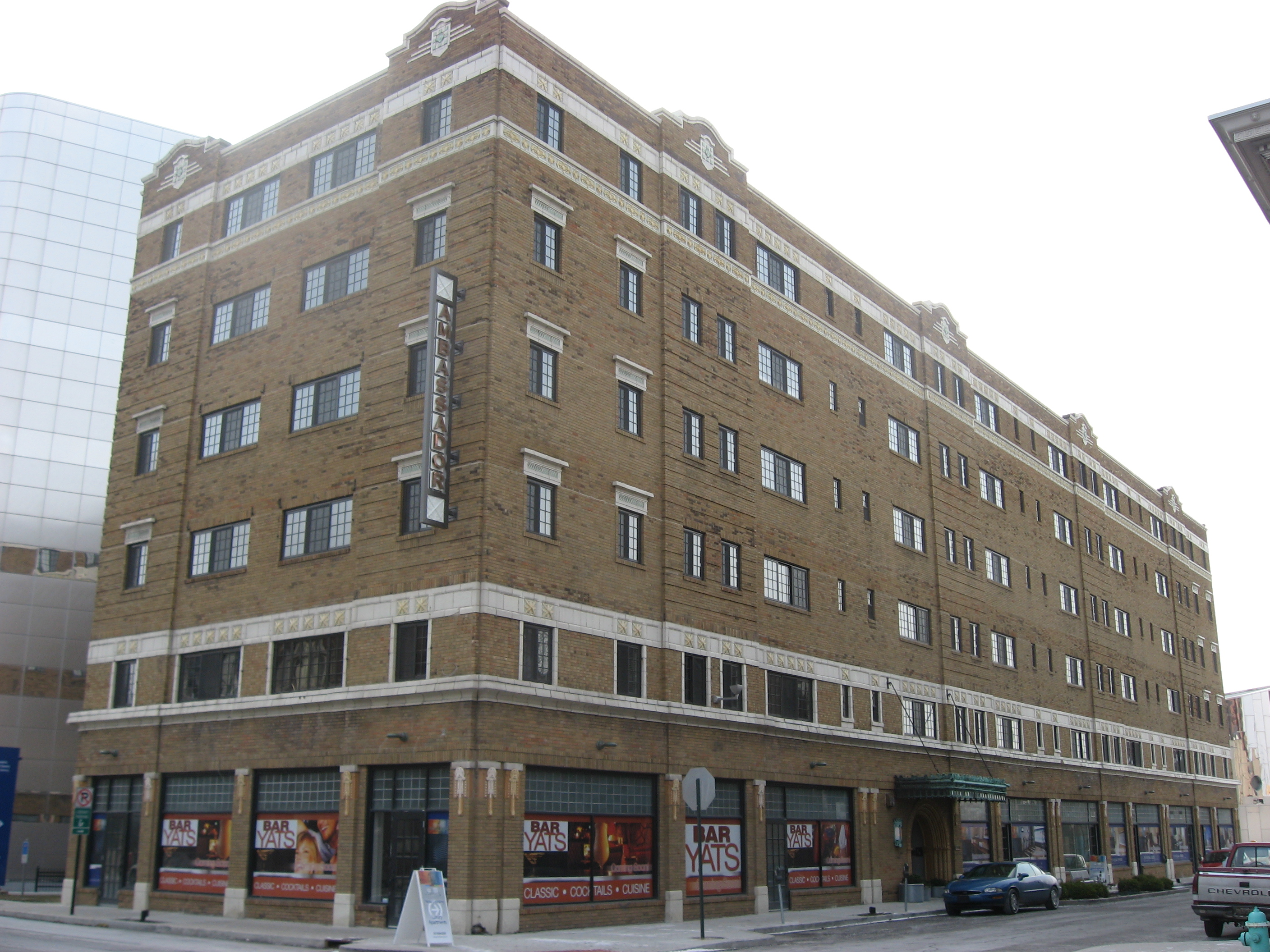 Front of The Ambassador, located at 39 E. Ninth Street in Indianapolis, Indiana, United States. Built in 1924, it is listed on the National Register of Historic Places as one of the "Apartments and Flats of Downtown Indianapolis Thematic Resources".